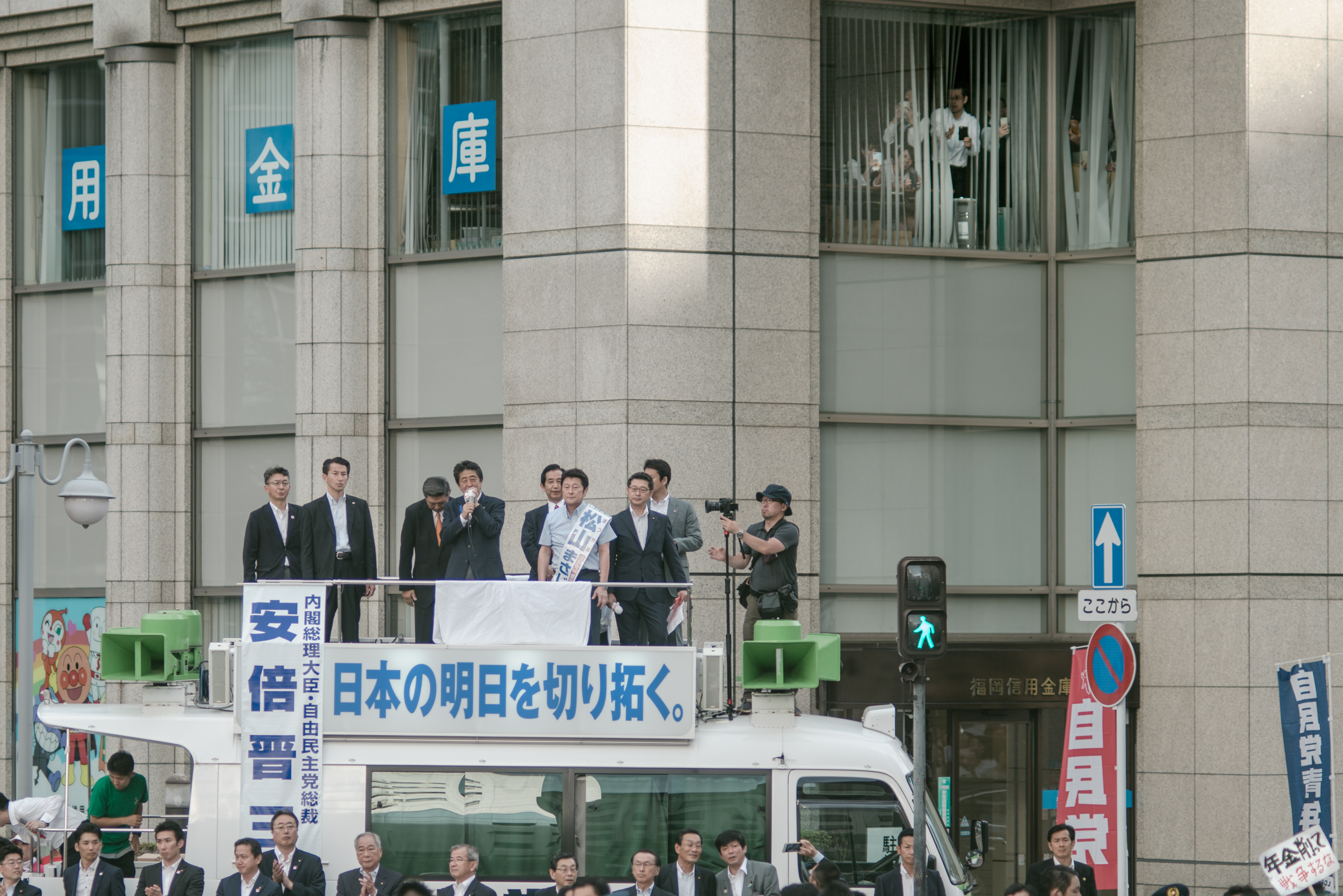 Speech by ABE Shinzo, President of the Liberal Democratic Party, in front of the Fukuoka City Hall, held on July 11, 2019